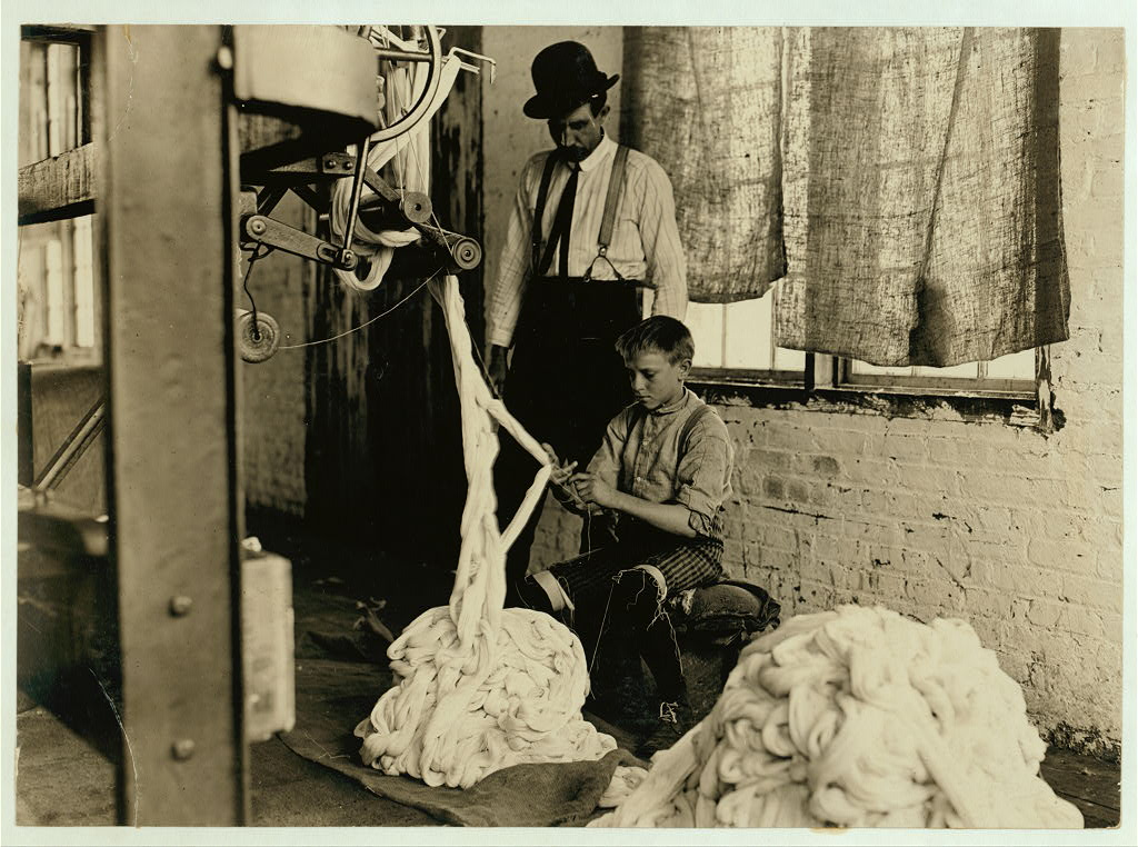 The title of the picture is wrong. This is a training machine of a spinning mill (doubling machine).